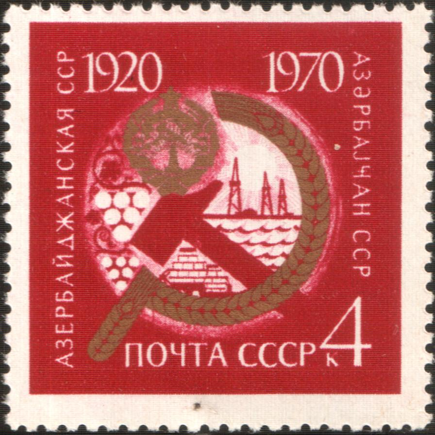 USSR stamp: Azerbaijan Soviet Socialist Republic (Established on 1920.04.28). Series: 50th Anniversary of the Union Republics of the Soviet Union